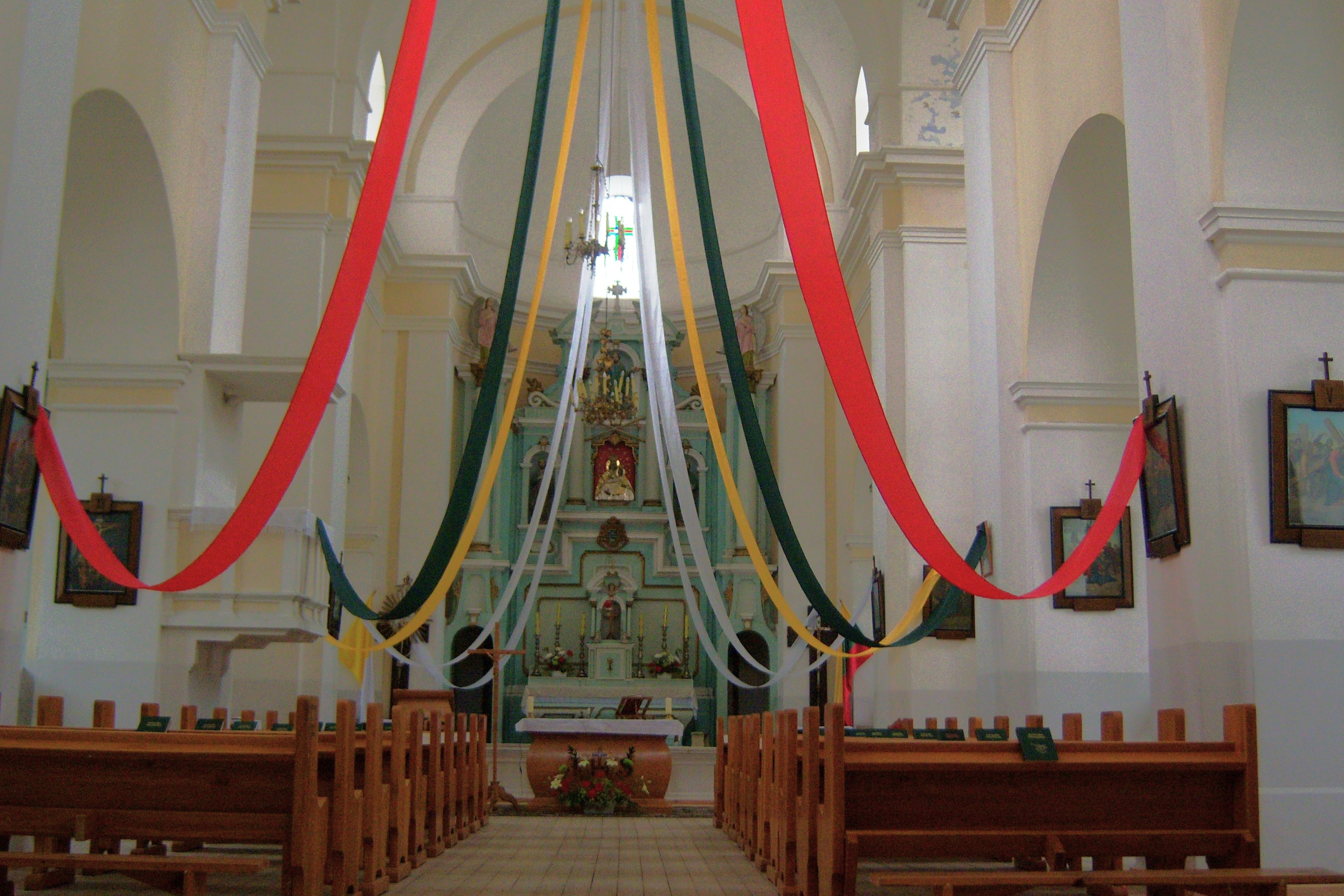 Inside a Roman Catholic Church in Gegužinė, Kaišiadorys District, Lithuania